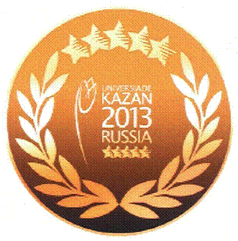 Commemorative medal XXVII World Summer Universiade 2013 in Kazan - Order of the President of the Russian Federation dated August 16, 2013 № 311-p "On the establishment of the commemorative medal" XXVII World Summer Universiade 2013 in Kazan '"